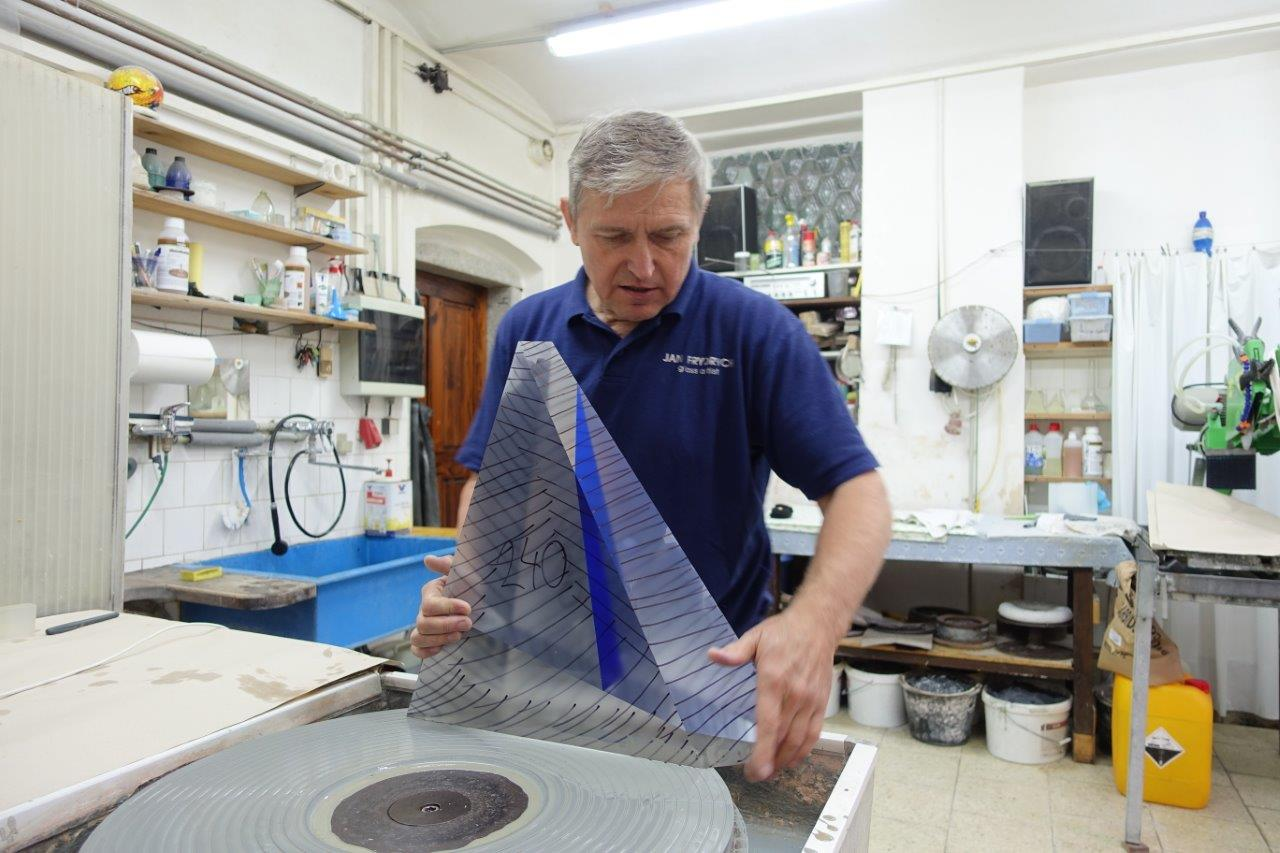 Mr. Jan Frydrych working in workshop.